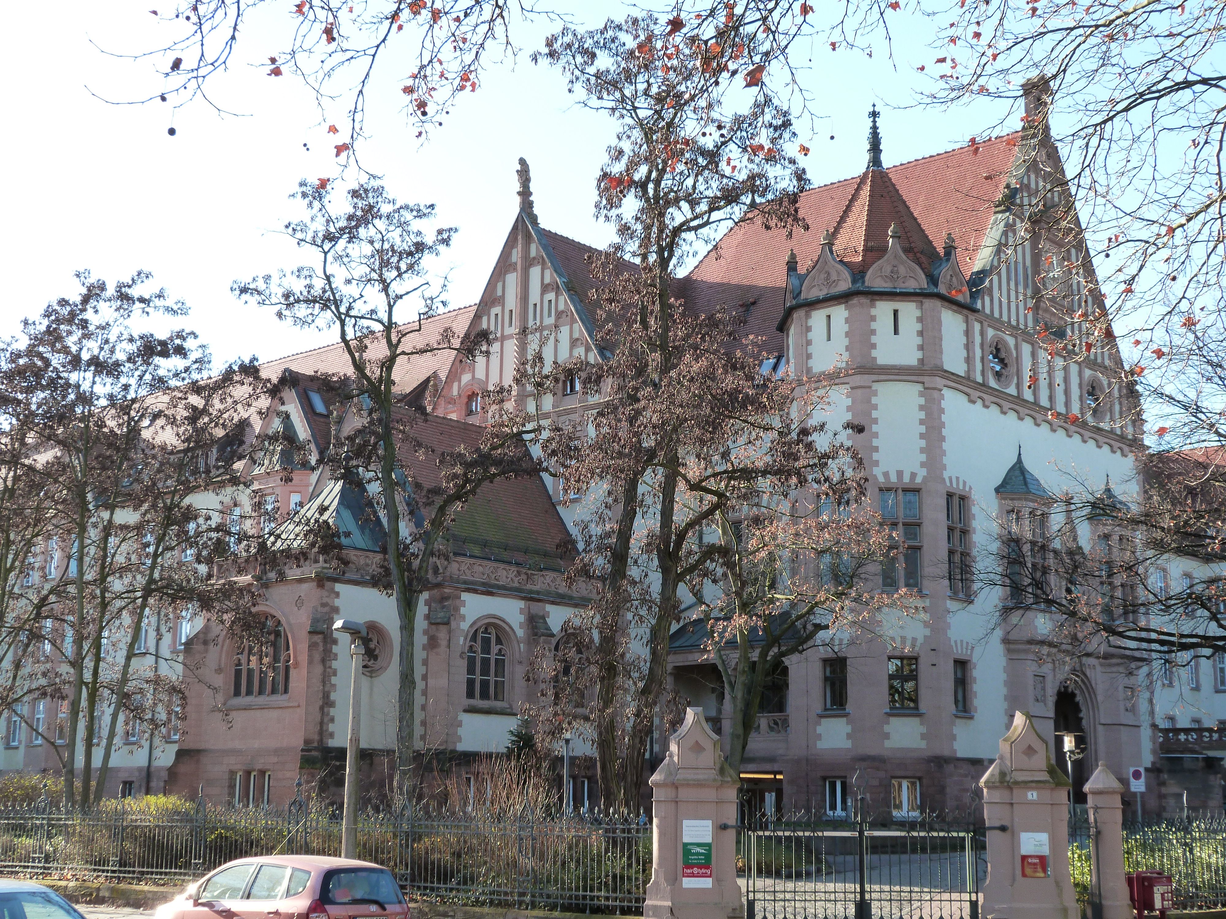 Main building of the Paul Riebeck foundation, Kantstrasse No. 1, Halle (Saale)